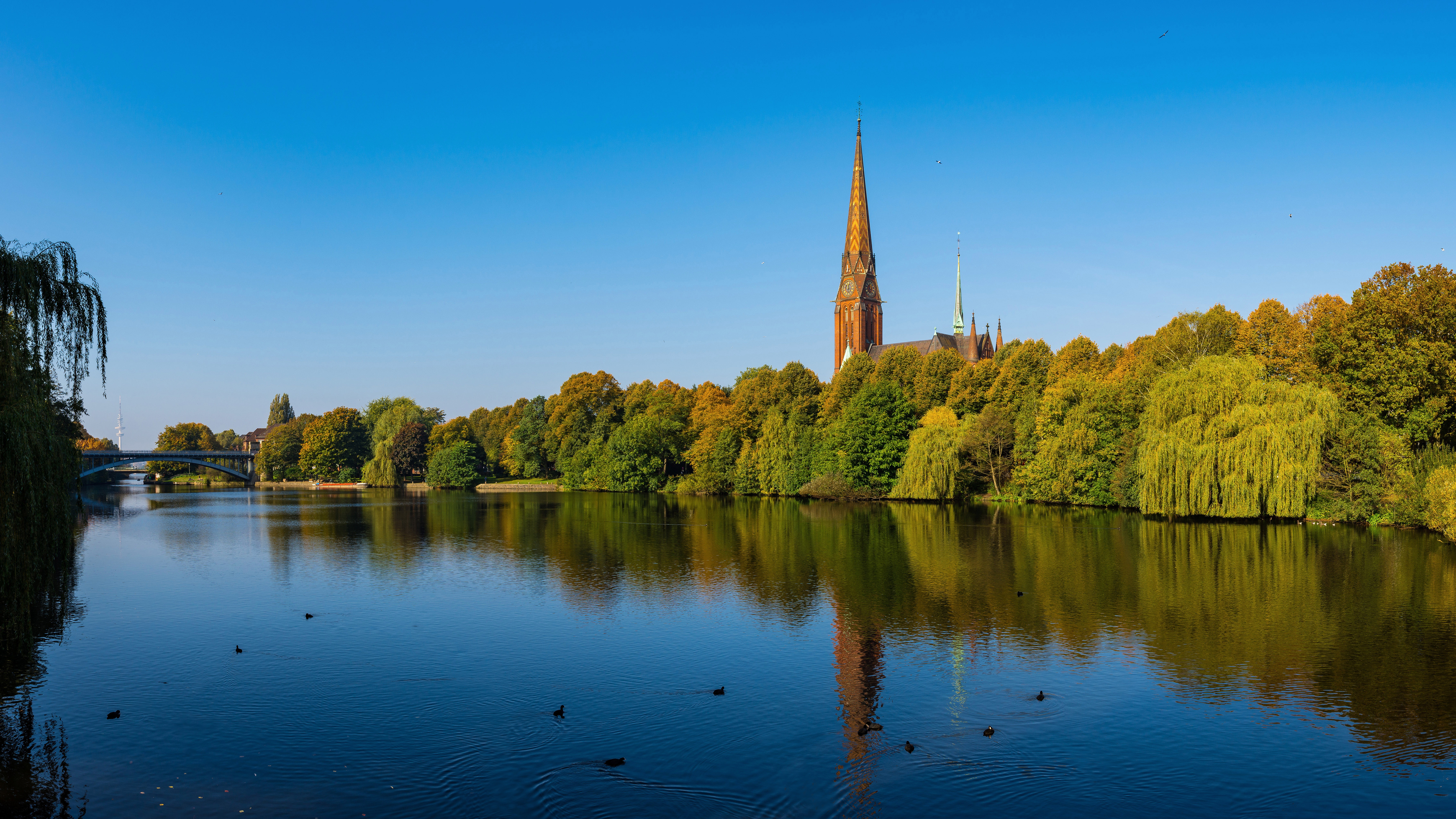 St. Gertrud church on the Kuhmühlenteich lake in the Uhlenhorst borough of Hamburg, Germany. In the background the Kuhmühlenteichbrücke (bridge) an the Heinrich Hertz Tower, the television tower for Hamburg. Composite made from 8 single photographs.